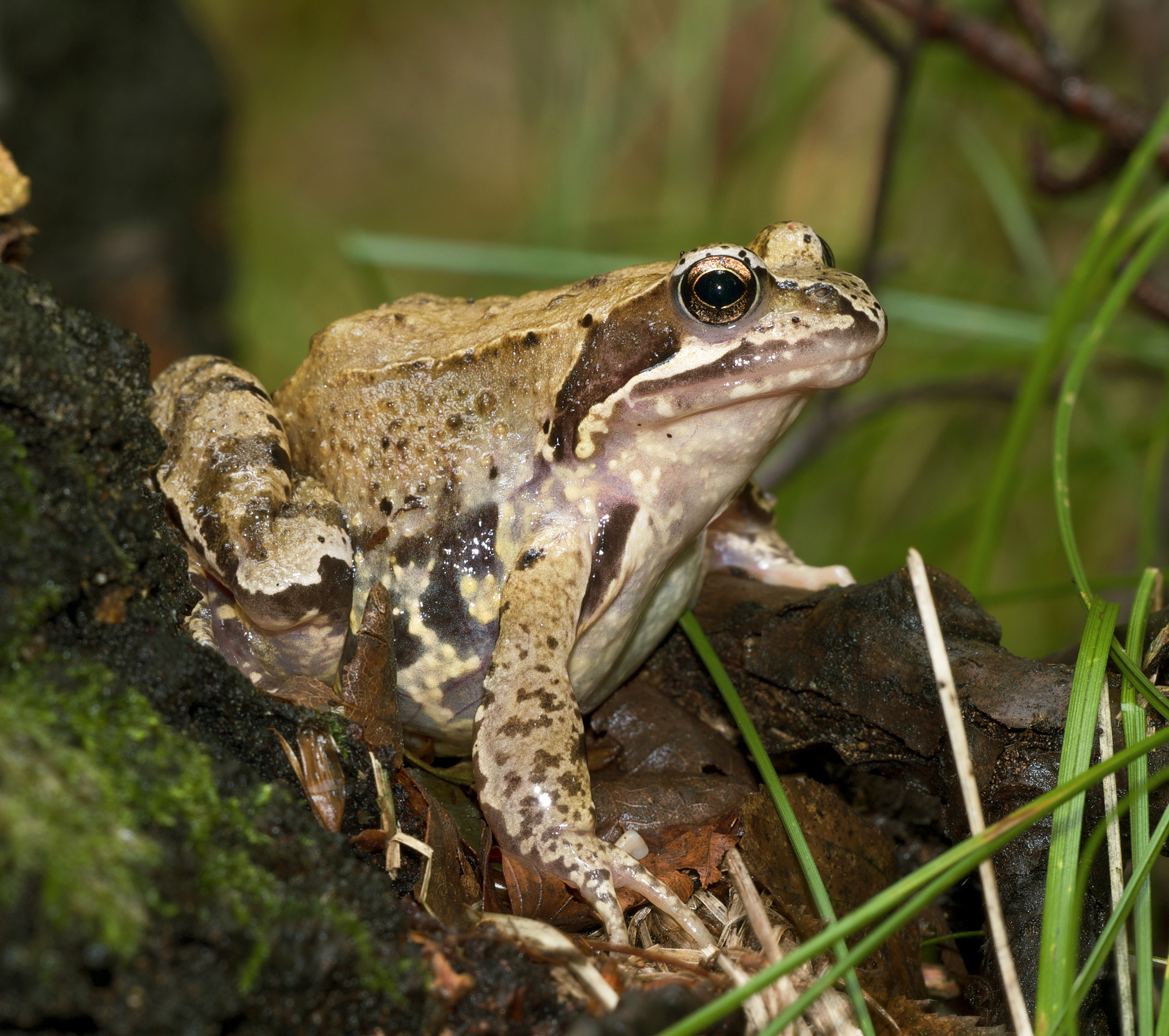 Common frog (Rana temporaria), female adult; Chemnitz, Germany